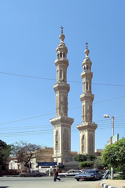 'Ali bin Abi Talib Mosque, Nasser City, Sohag, Egypt